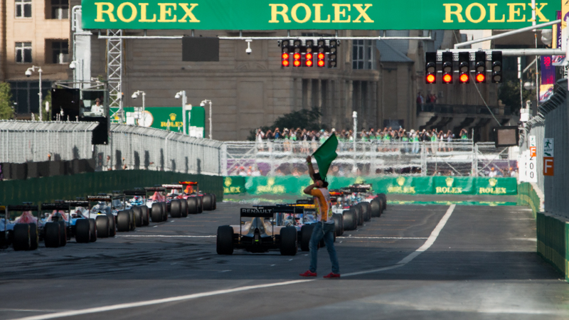 Start of the 2016 Grand Prix of Europe